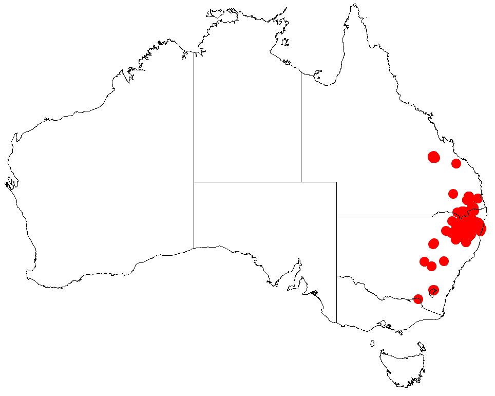 Acacia venulosa occurrence data from Australasia Virtual Herbarium downloaded from on 8 December 2018